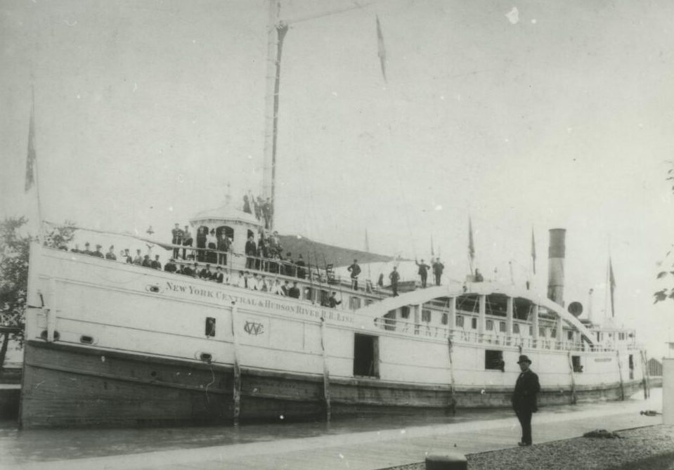 The steamer Empire State before her conversion to a barge in 1908